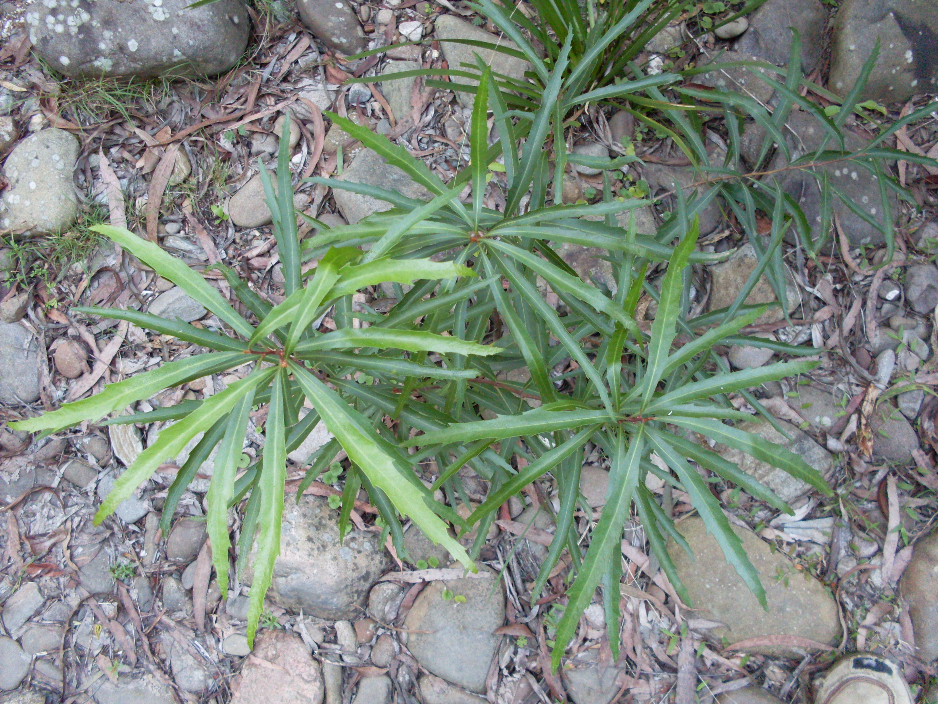 A young Kangaroo apple (Solanum aviculare). Bimberamala Creek, Morton National Park, NSW Australia, May 2009.